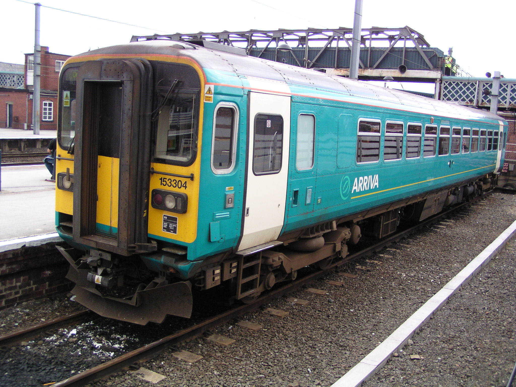 This image was copied from (Image:153304_at_Doncaster.JPG). The original description was: BR Class 153, no. 153304 at Doncaster on 27th July 2003. This unit is painted in Arriva Trains Northern livery.